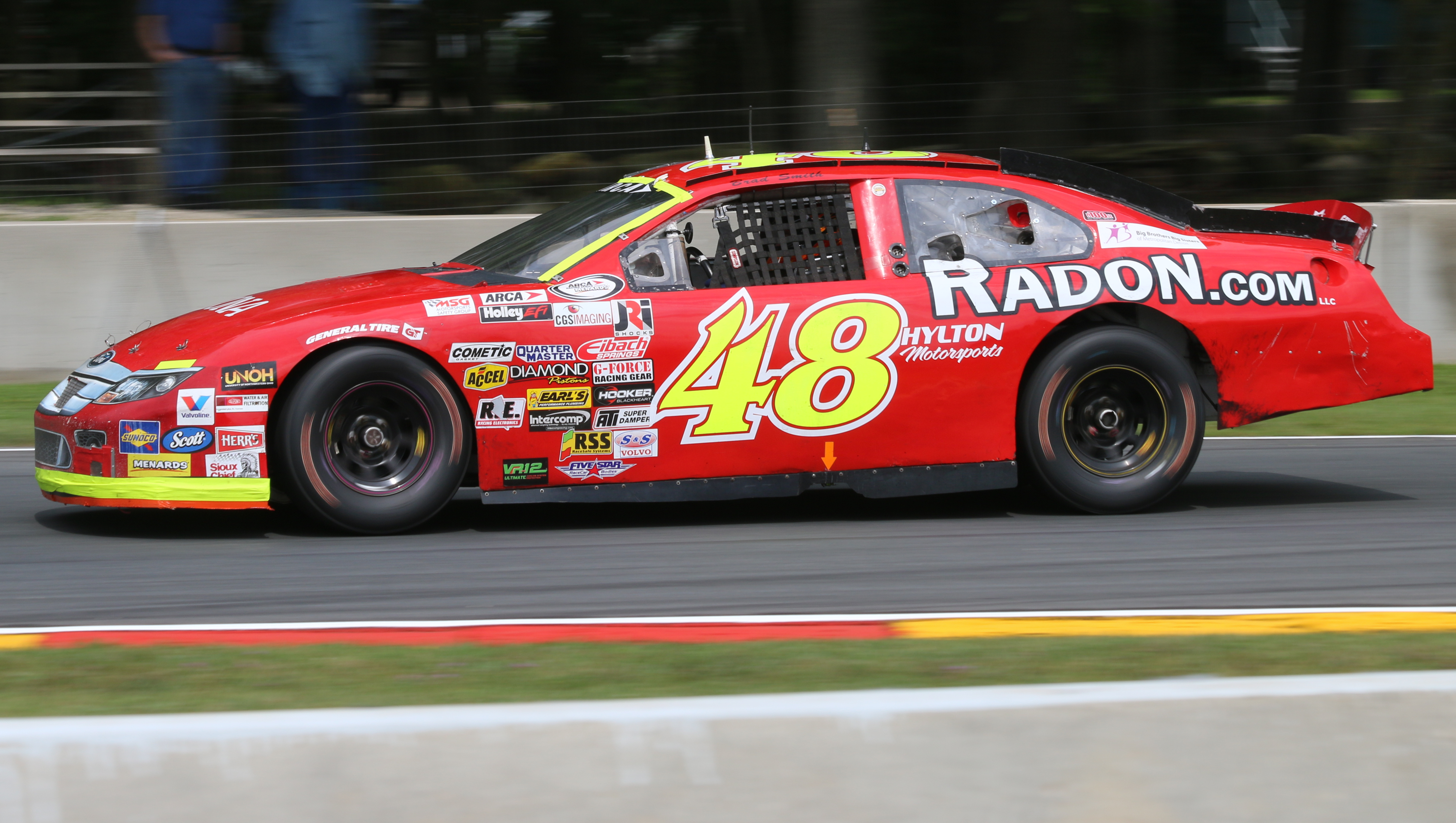 The ARCA Racing Series car of Brad Smith at the 2017 Road America 100 race.